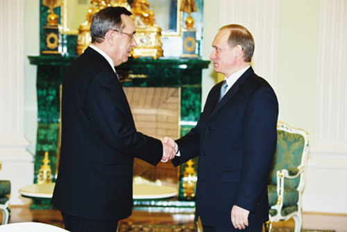 THE KREMLIN, MOSCOW. A meeting with Belarusian Prime Minister Vladimir Yermoshin.